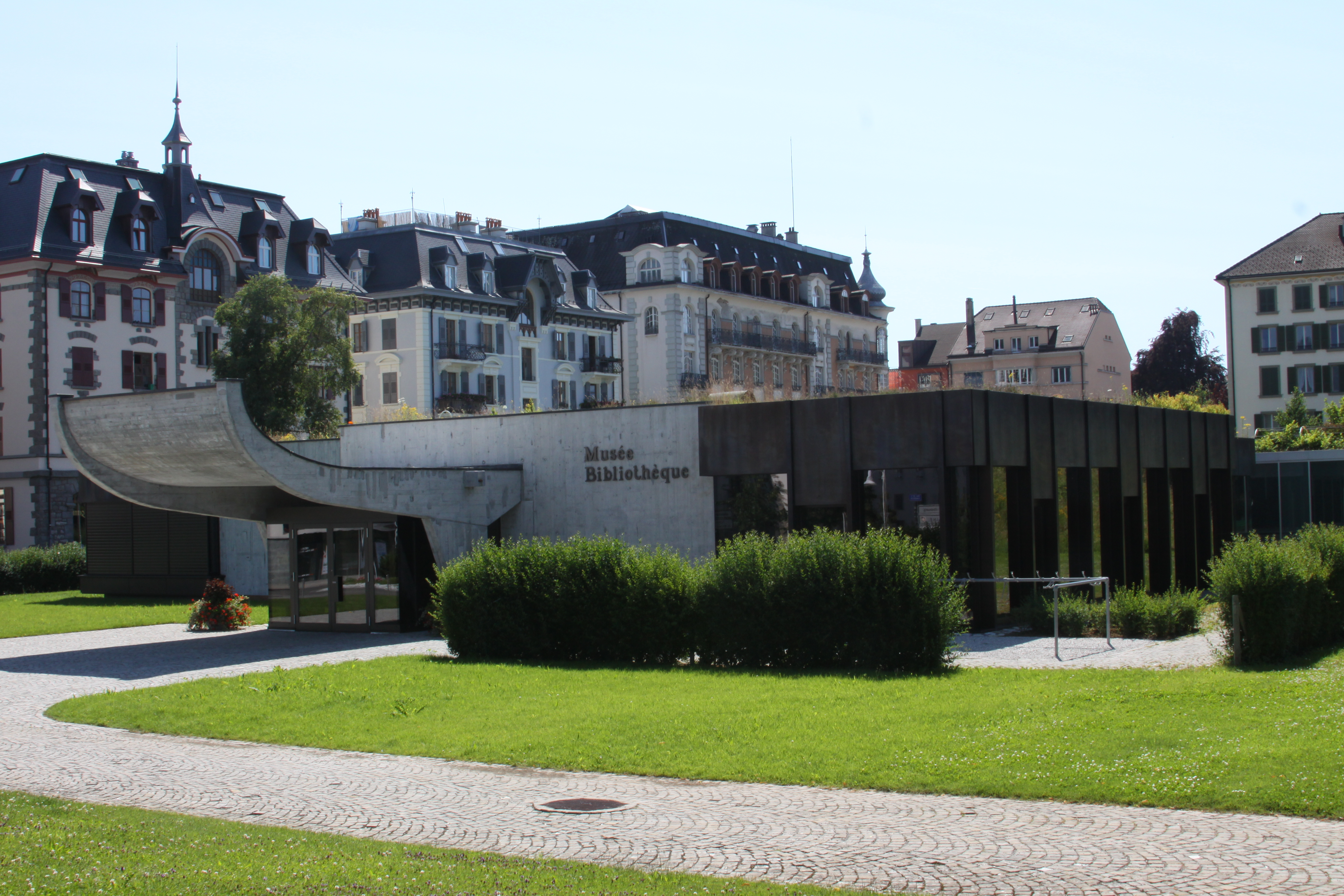 Gruyère Museum, Rue de la Condémine 25, Bulle